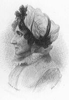 Portrait of poet Anna Laetitia Barbauld